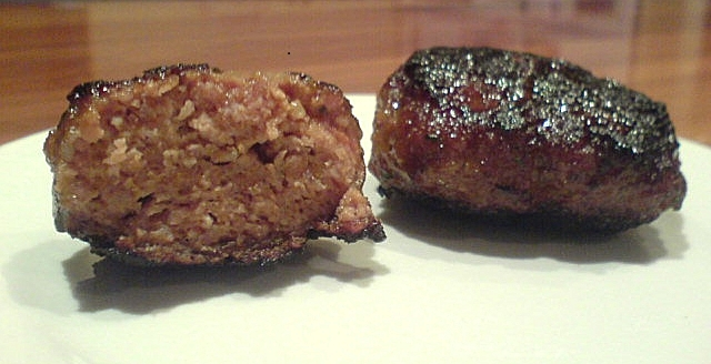 Two common rissoles on a plate. The one on the right is whole, the left one is cut in half to show typical contents.